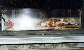 The body of Saint Ciriaco in the Dome of Ancona